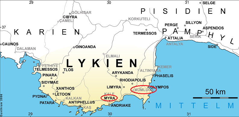 Ancient Cities of Lycia (modern places in grey)